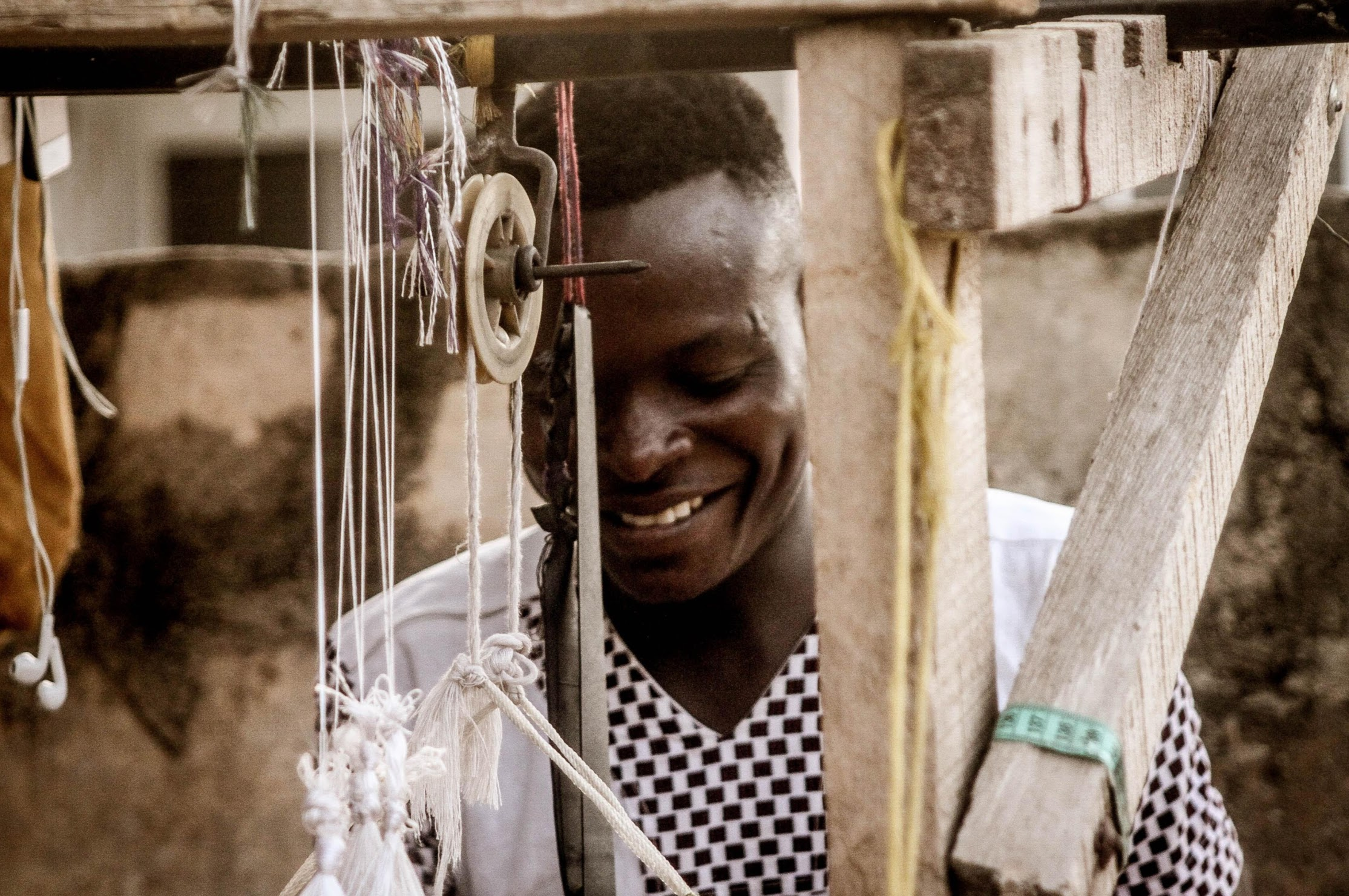 This photo has been taken in the country: Ghana